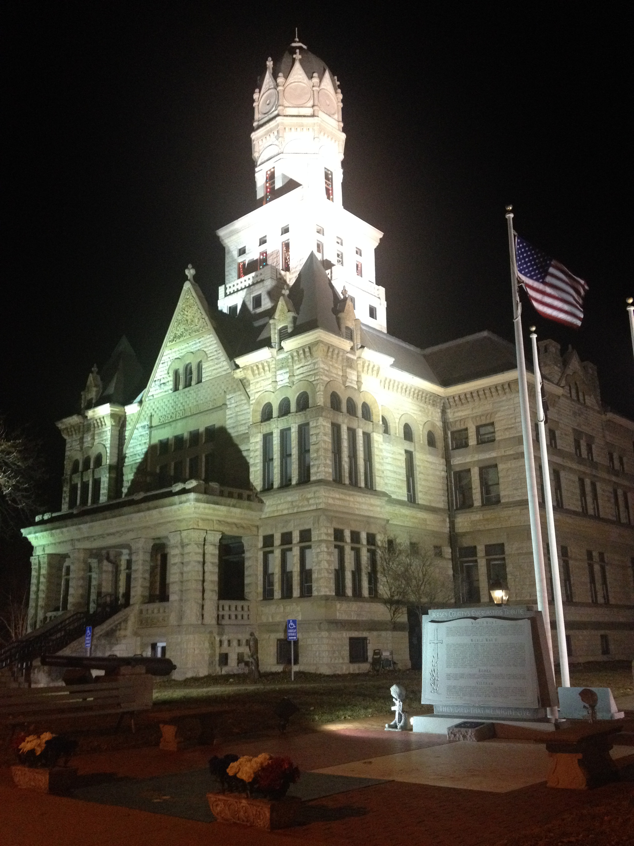 An outstanding example of Richardsonian Romanesque architecture, the Jersey County (IL) Courthouse was built in the late 1800's, in Jerseyville, IL